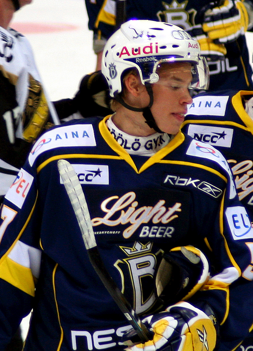 Ice Hockey team Espoo Blues' Attacker #40 Tomi Sallinen